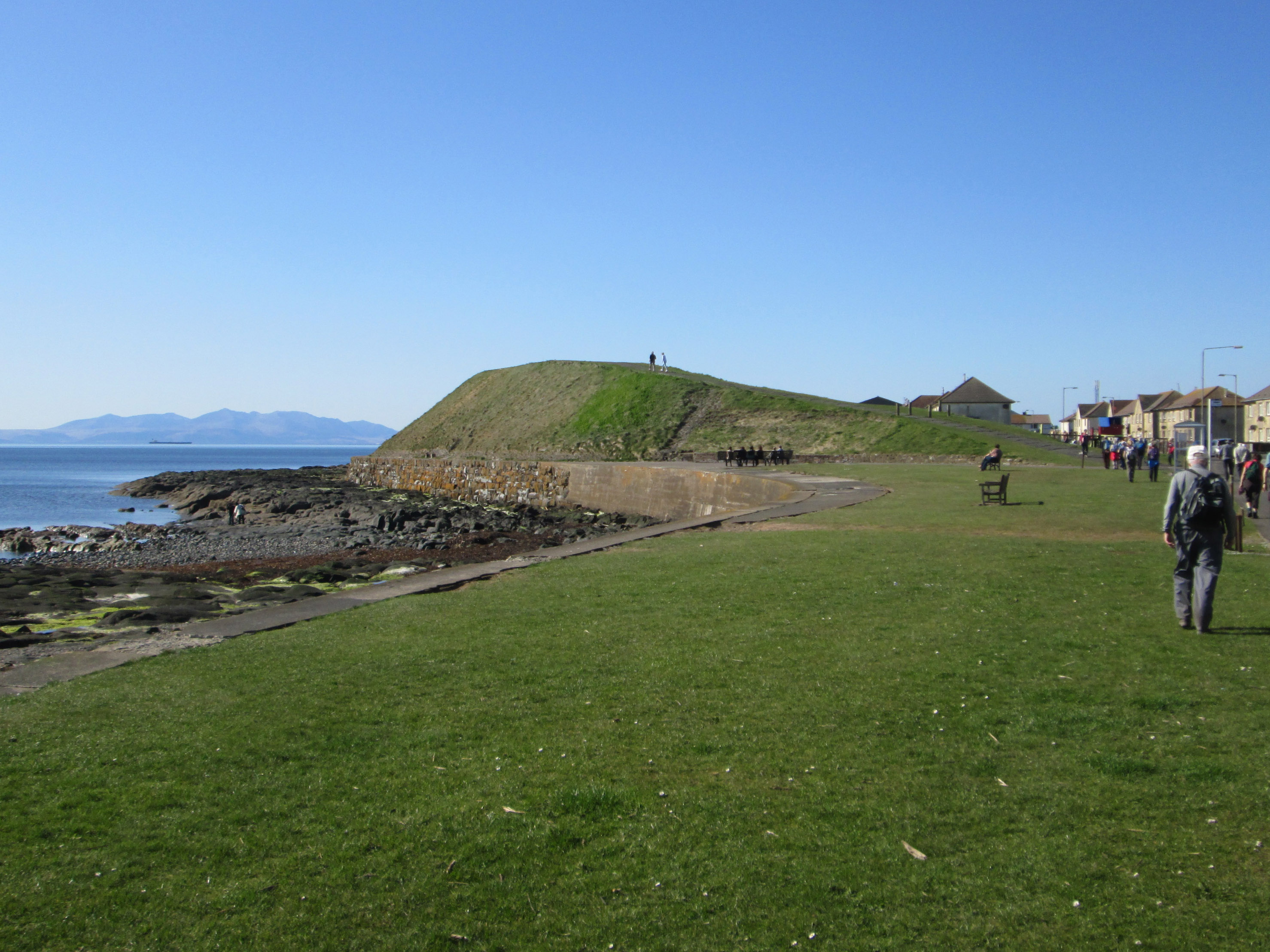 The Ballast Bank sheltering Troon harbour.